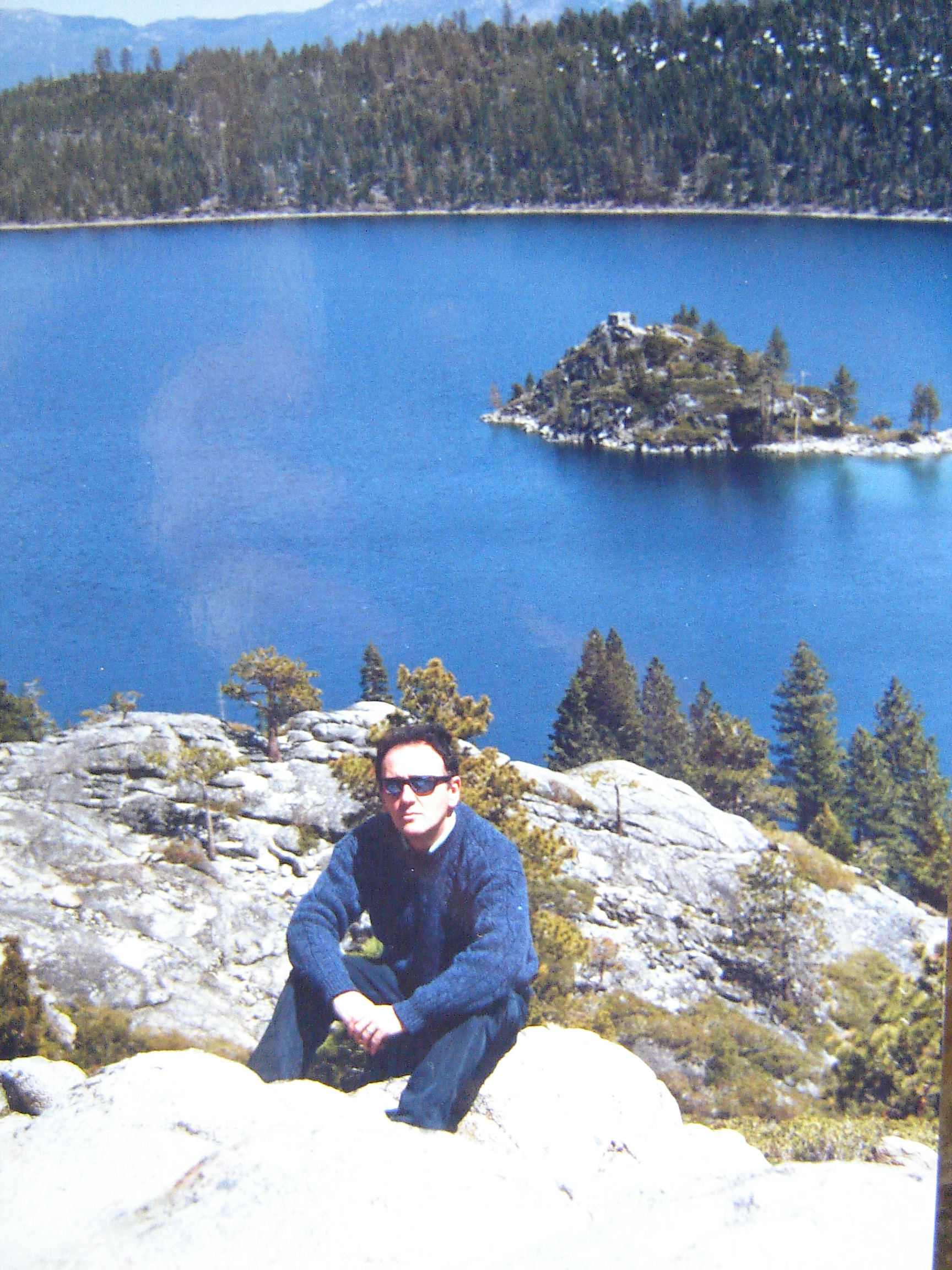 Portrait of Edgar Brau. Lake Tahoe, Nevada, April 2003